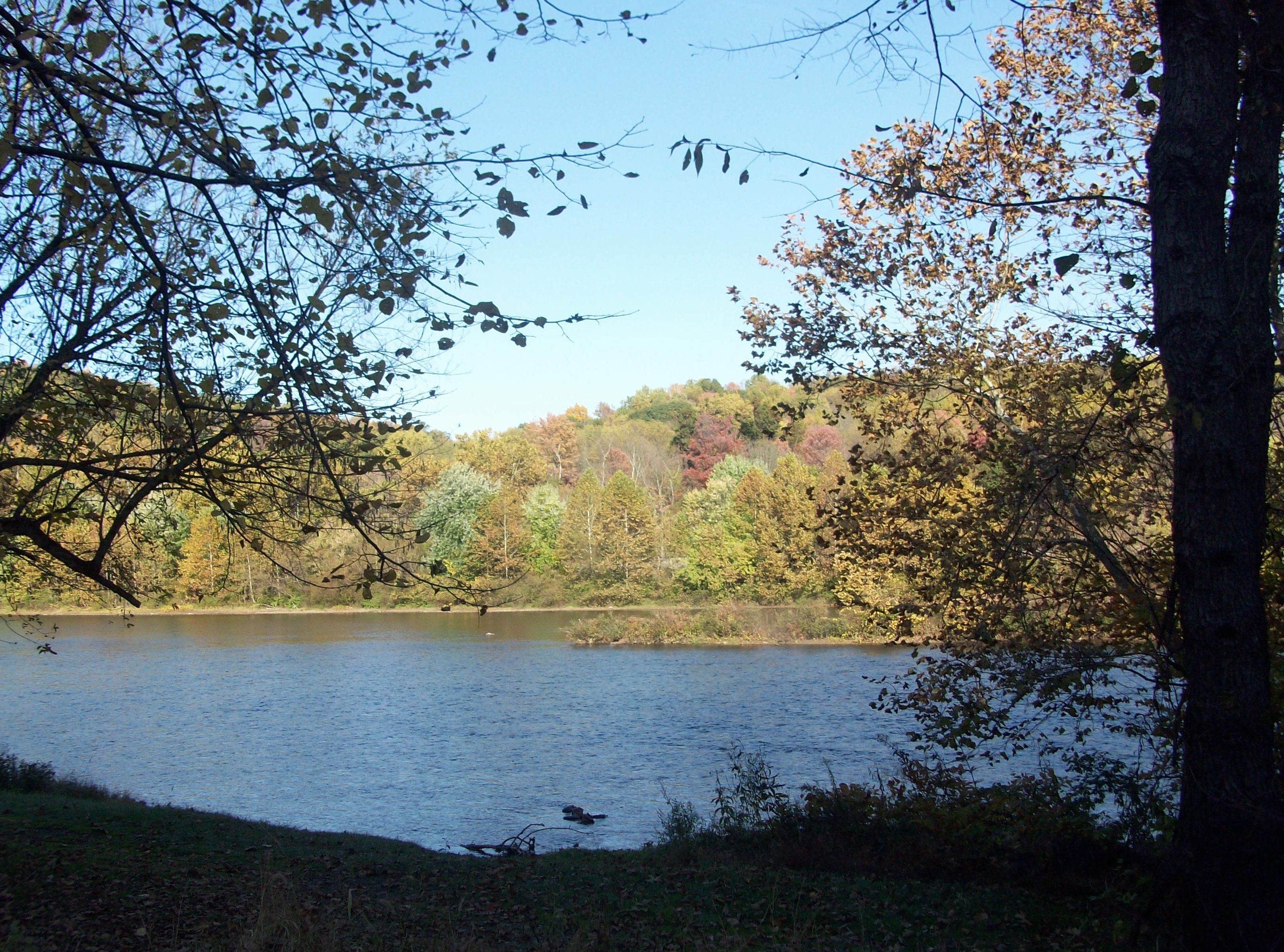 View of the Youghiogheny River at Whitsett in Perry Township, Fayette County, Pennsylvania.